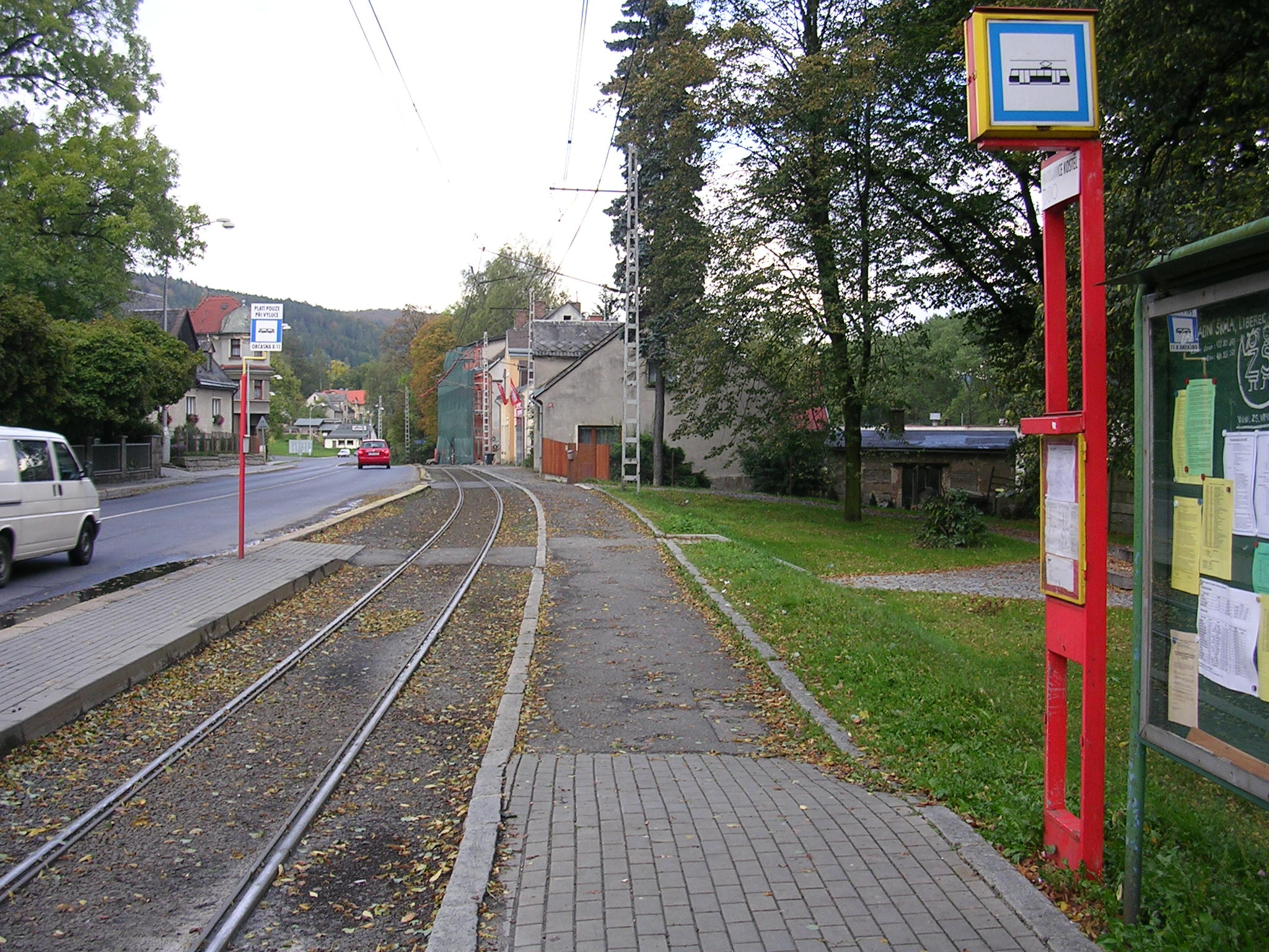 Tramway line between Liberec and Jablonec. Liberec, Vratislavice nad Nisou, Tanvaldská street, kostel.